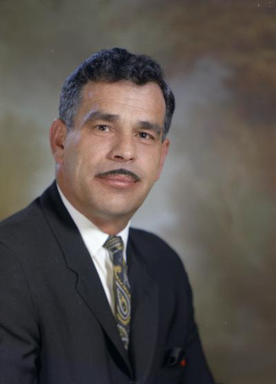 Representative Richard J. Kink